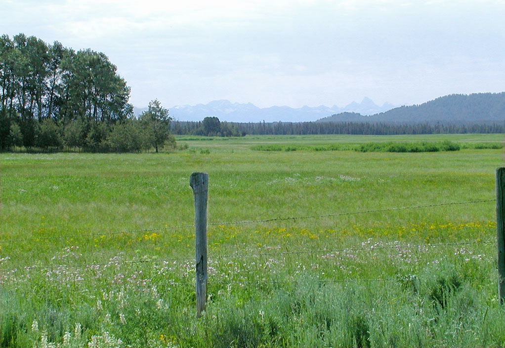 One of many meadows in Island Park that reveals the flat bottom of caldera floor. This meadow is near Mesa Falls. The peaks in background are the Grand Tetons.